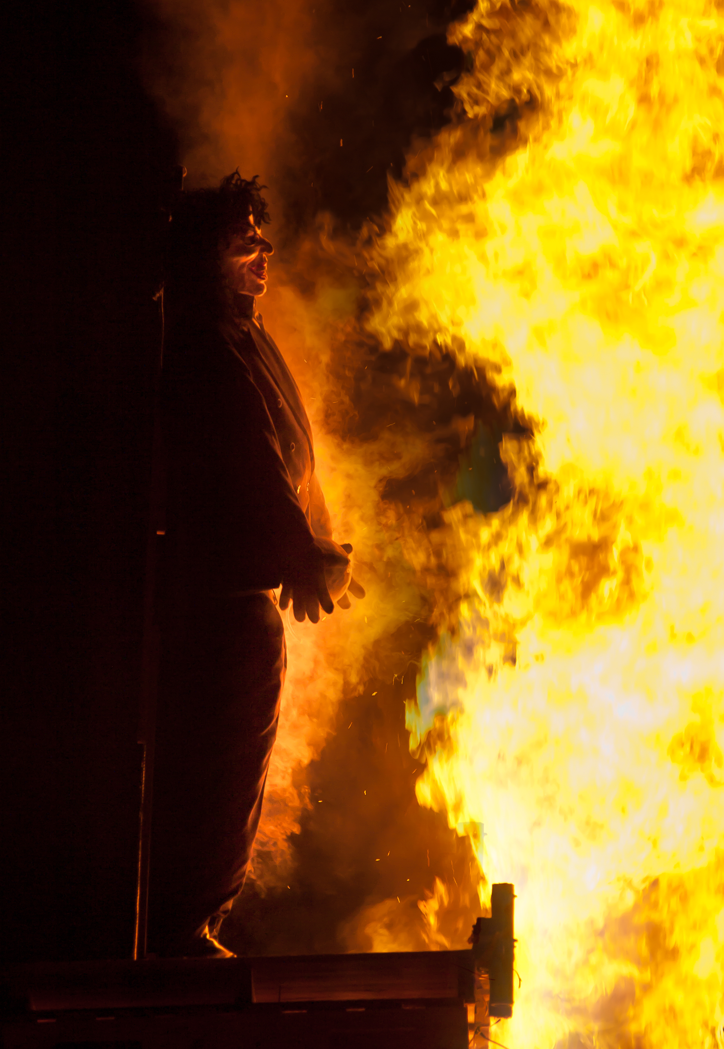 Guy Fawkes wax model buring on the bonfire at the Billericay Fireworks Spectacular in Lake Meadows Park, Billericay, Essex